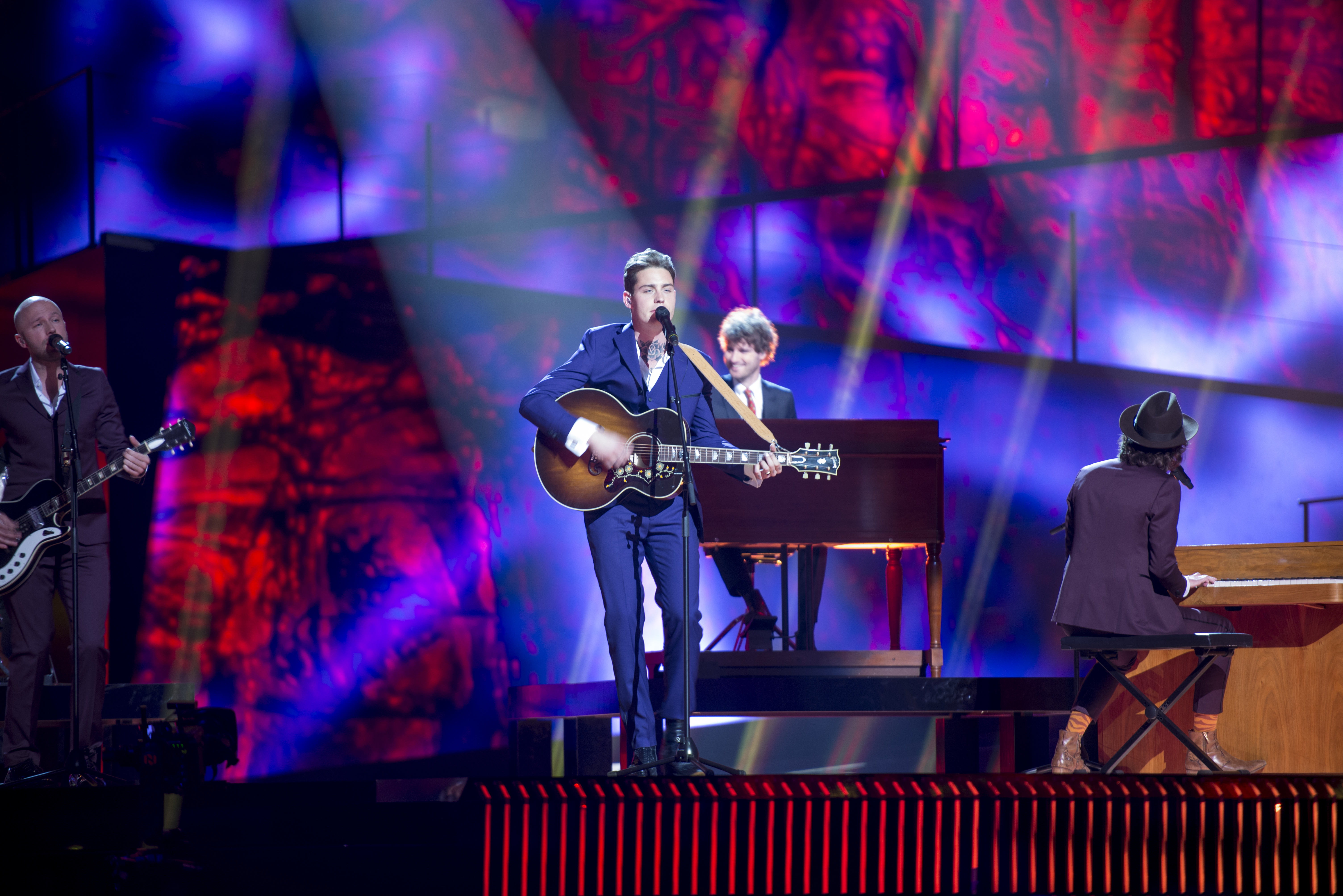 Douwe Bob representing Netherlands with the song "Slow Down" during a rehearsal before the first semi final of the Eurovision Song Contest 2016 in Stockholm. (Help translate this text)